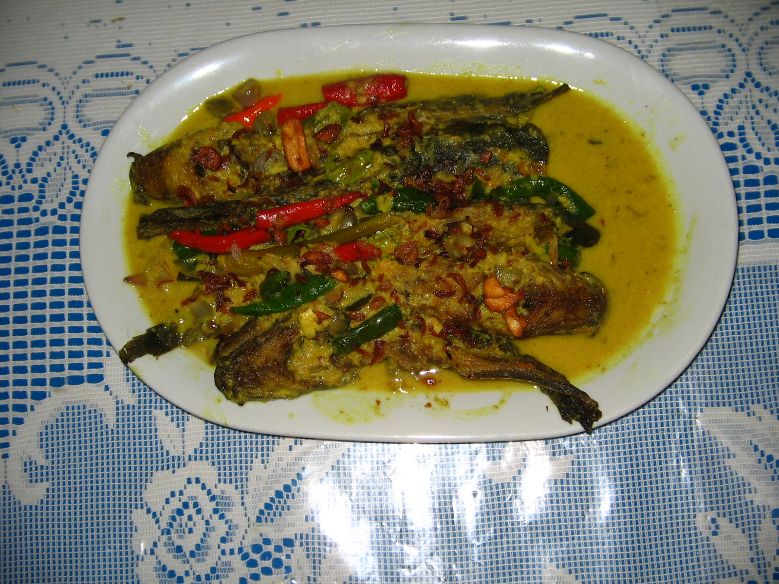 Mangut lele, a cuisine from eastern Central Java